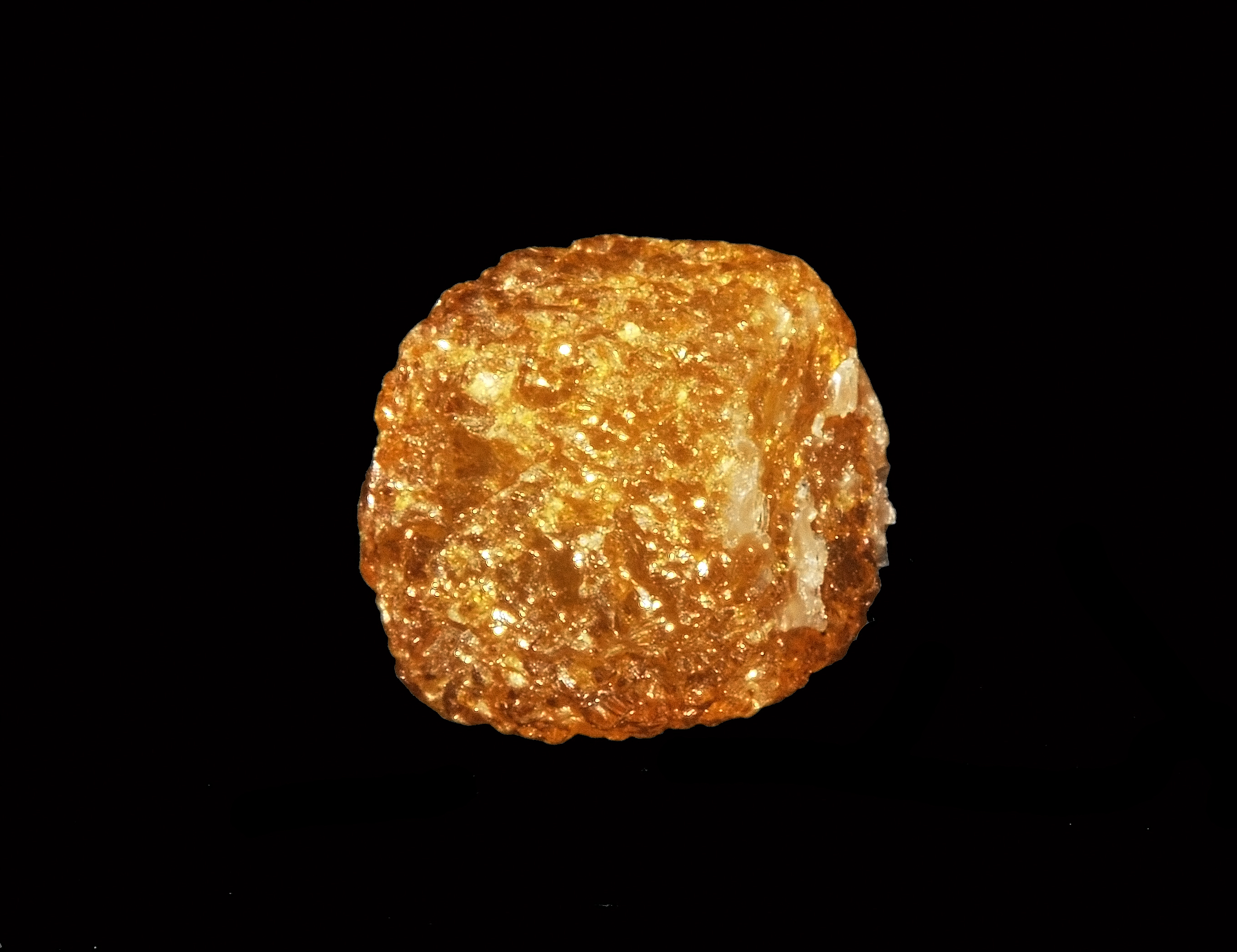 crystal of diamond : Democratic Republic of Congo